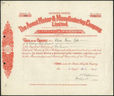 Share certificate for 100 deferred shares, issued by Cyril Pullin and his Ascot Motor and Manufacturing Company Limited, on 4 April 1928.